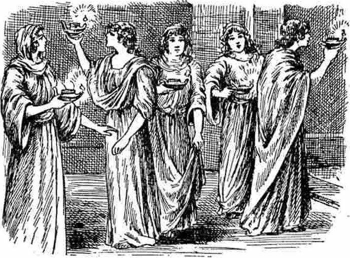 croped version of M. Bihn & J. Bealings